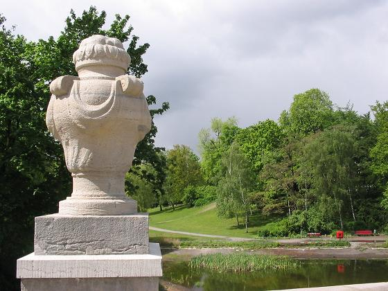 The "Rudolph-Wilde-Park" in Berlin; view from the "Carl-Zuckmayer-Bridge" to the western part